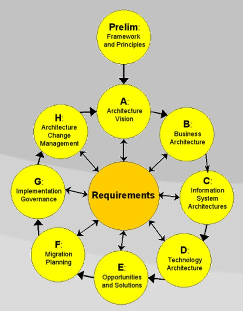 The Open Group Architecture Framework (TOGAF) A framework for Enterprise Architecture which provides a comprehensive approach to the design, planning, implementation, and governance of an enterprise information architecture. The architecture is typically modeled at four levels or domains; Business, Application, Data, Technology. A set of foundation architectures are provided to enable the architecture team to envision the current and future state of the architecture.